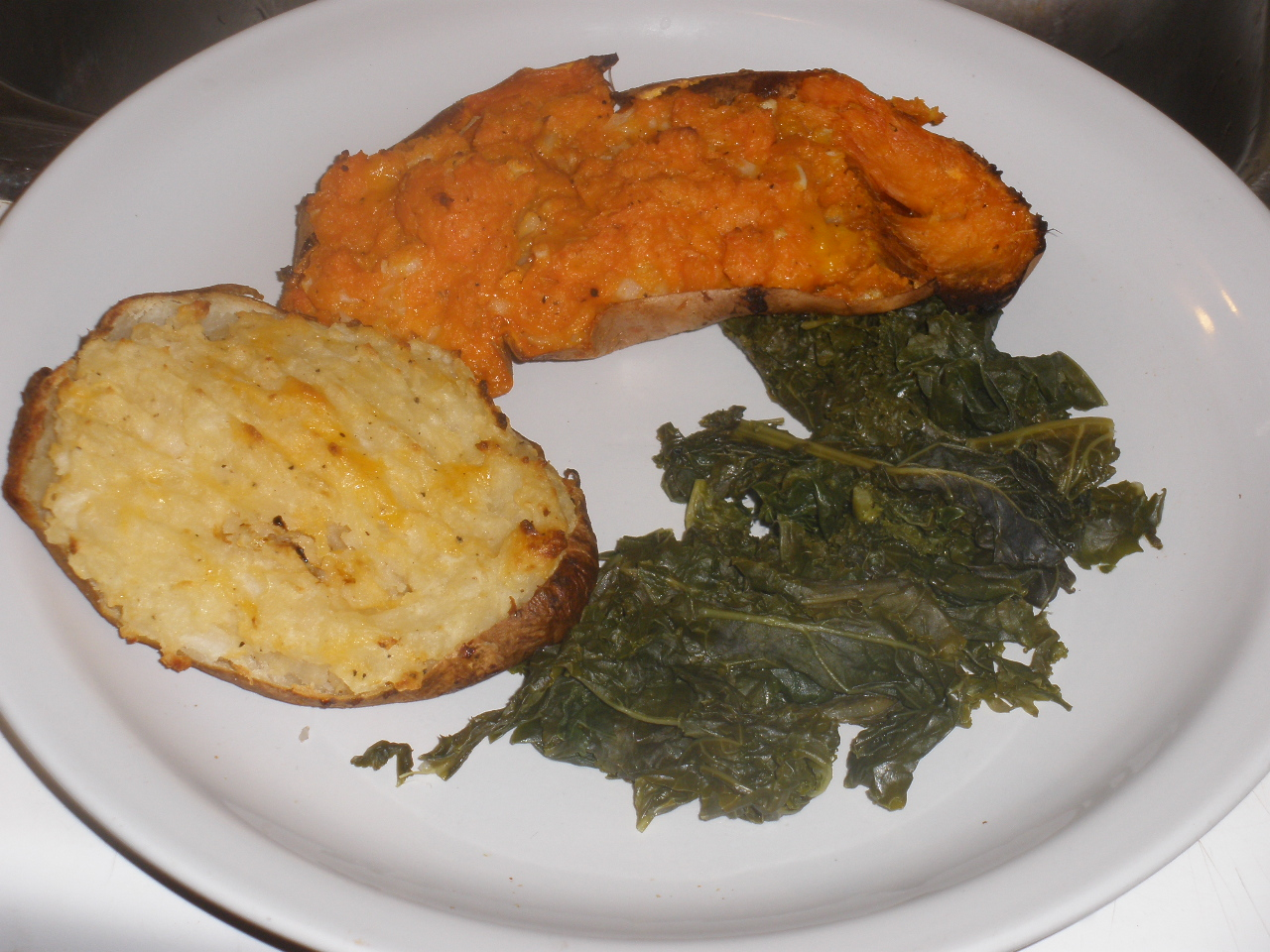 Twice baked potato (white), twice baked sweet potato (orange), and steamed kale (green).